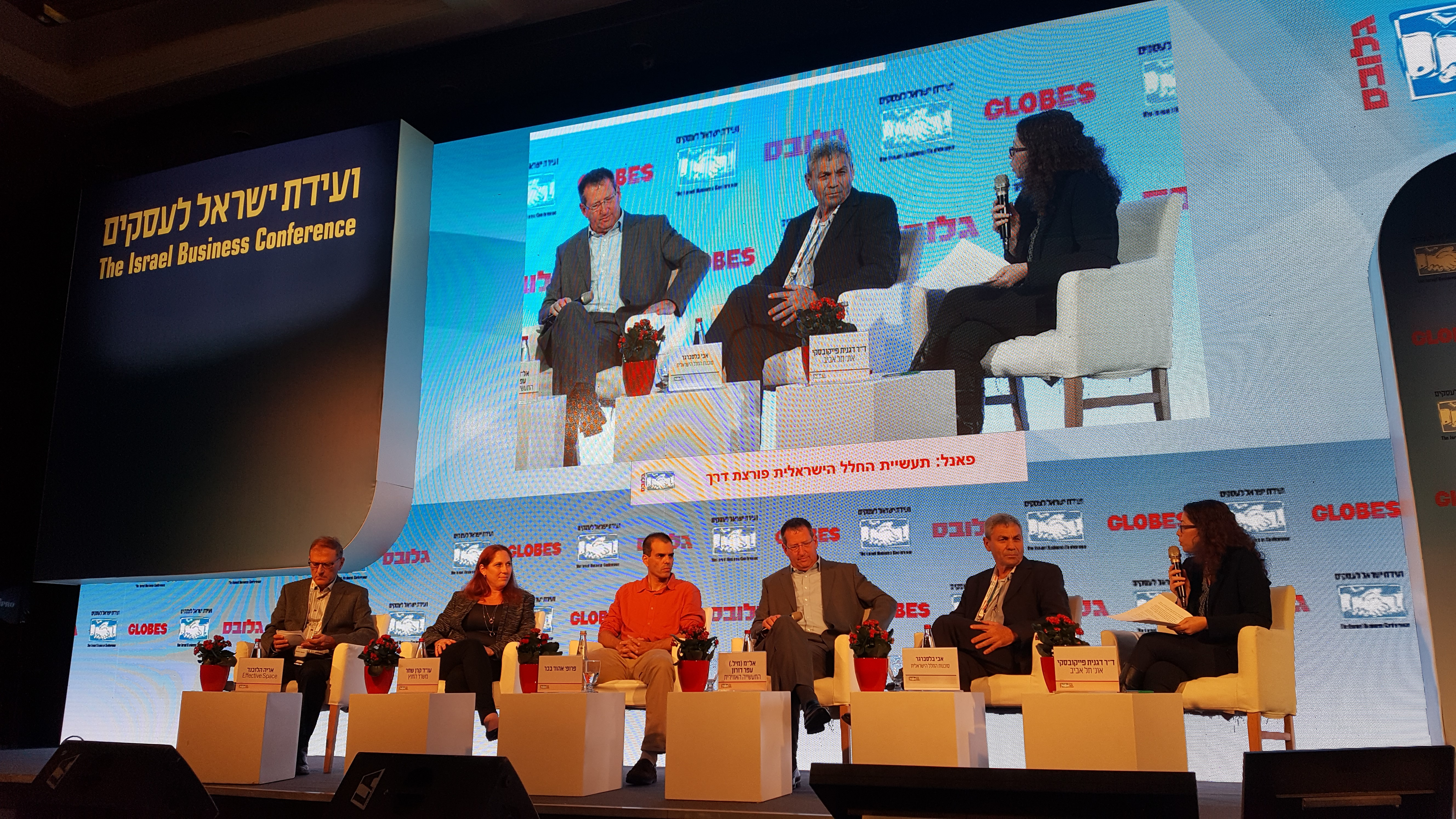 Israel Business Conference 2016